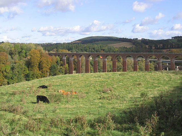 The amphitheatre at Trimontium The hollow in this field is the first Roman military amphitheatre to be recognised in Scotland and was attached to the Roman fort and camp complex at Trimontium. Suggested by Dr Bill Lonie, an amateur archaeologist, it was surveyed in 1993 and excavated and confirmed by Bradford University in 1996. The amphitheatre was oval-shaped with a central area of 37m by 30m and was fenced off from a simple bank of river-stone terracing. Drygrange Viaduct is in the background. (Source: Trimontium Trust information board on site). The Trimontium Trust organise a Trimontium Walk from Melrose To Newstead on Thursdays in April to October, and Tuesdays and Thursdays in July and August. For a modest cost a local guide will explain all the Roman history in this beautiful area. For more information on the Trimontium Trust